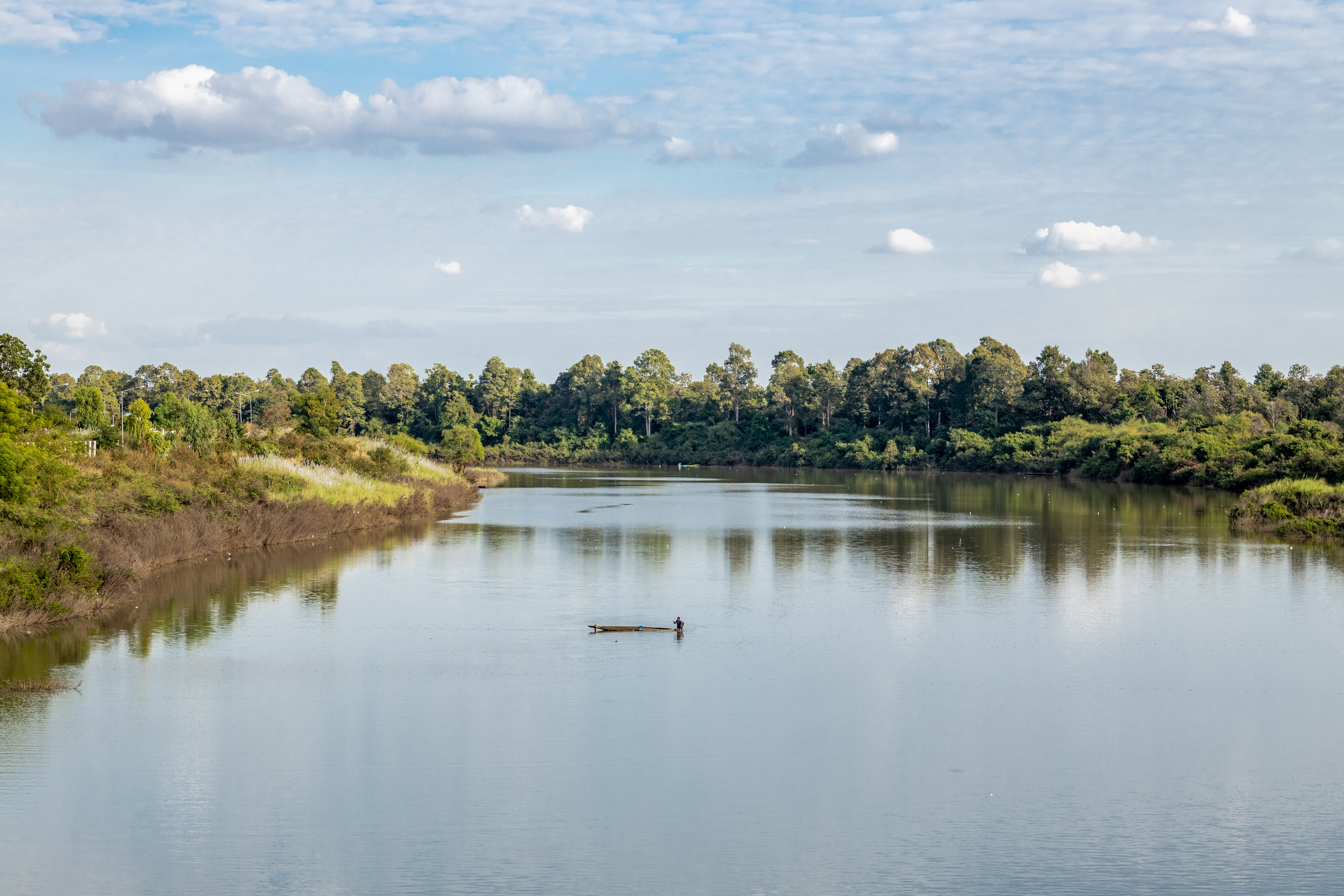 Mun River in Ra Sisalai district, Sisaket province, Thailand.